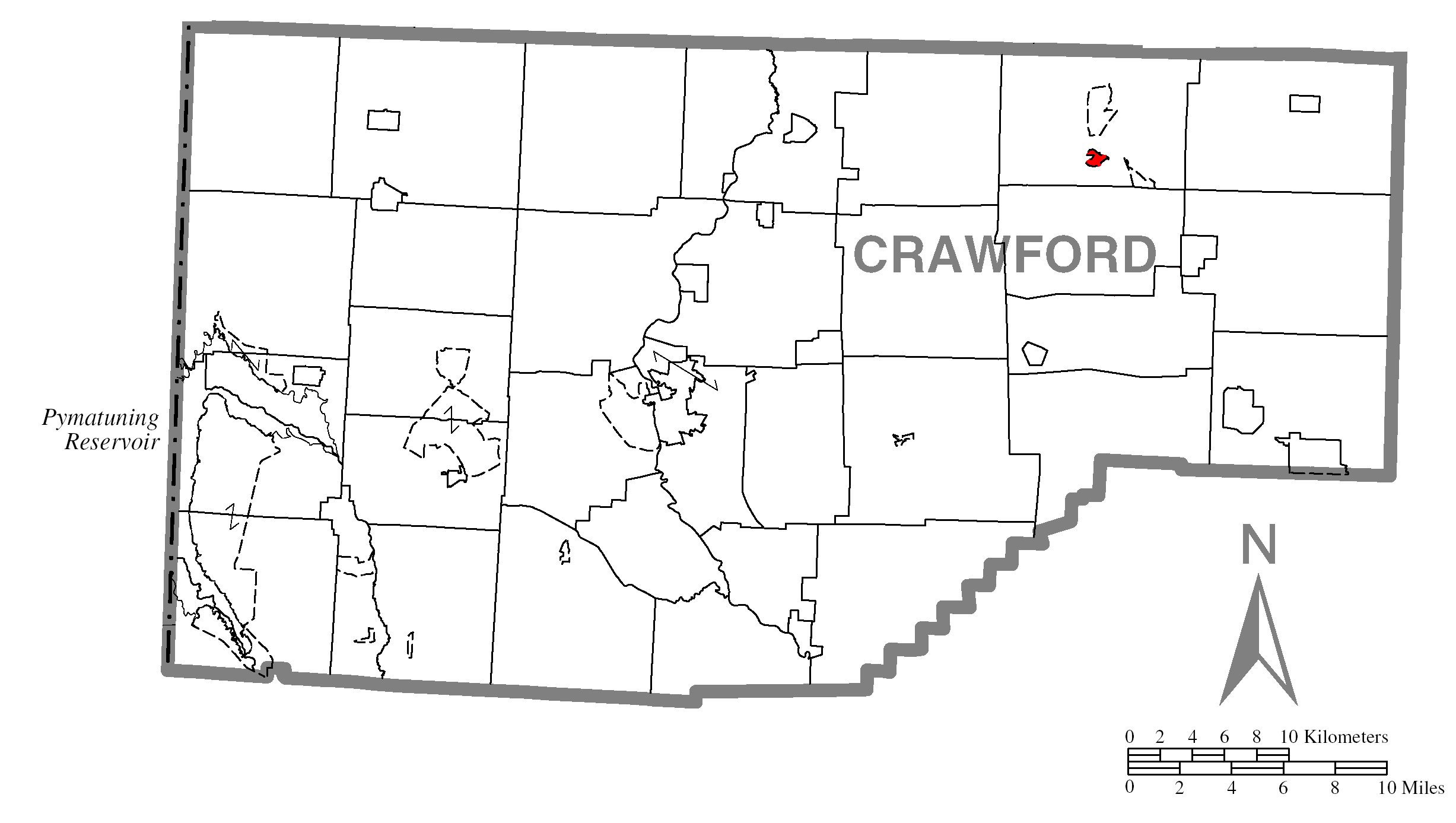 Map of Crawford County higlighting Lincolnville.